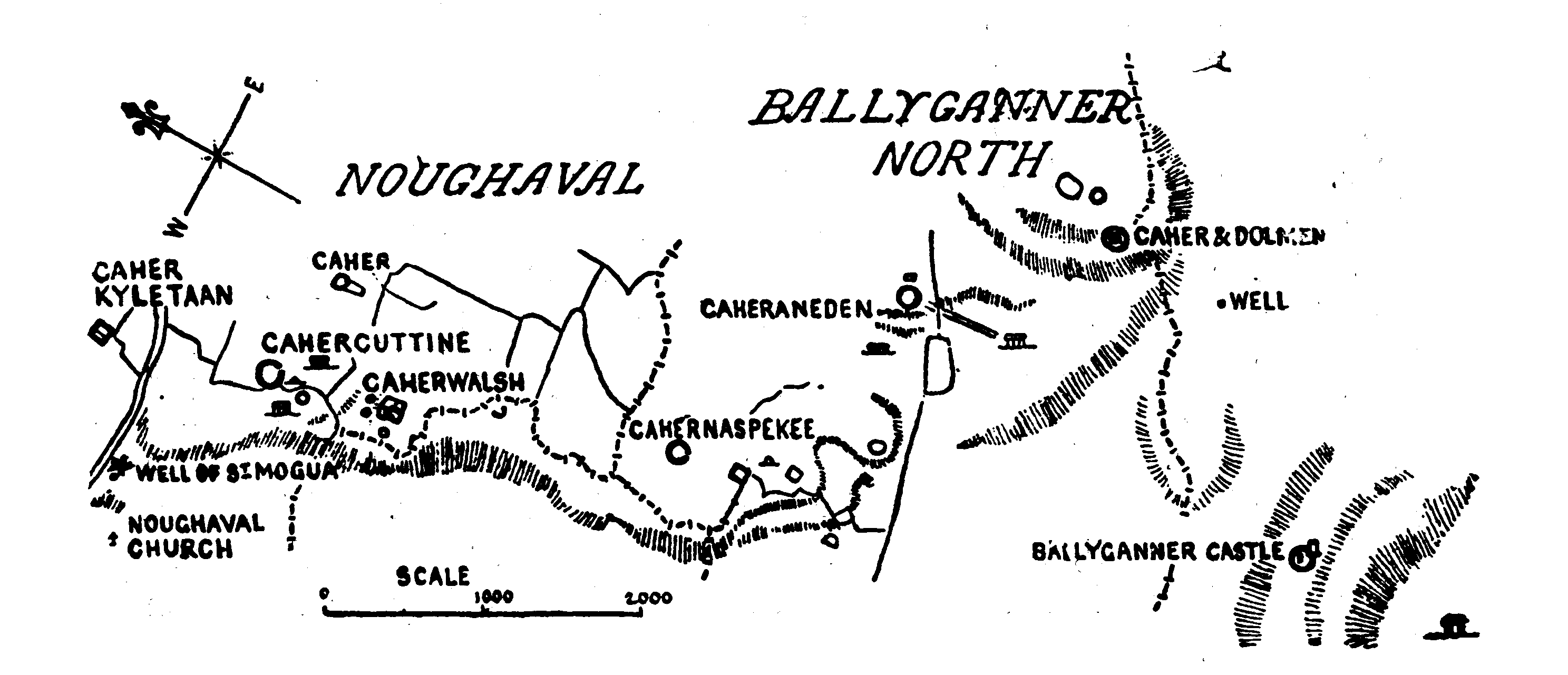 Map of ancient sites in the townlands of Noughaval and Ballyganner North, drawn by Thomas Johnson Westropp (1860–1922) in 1897.